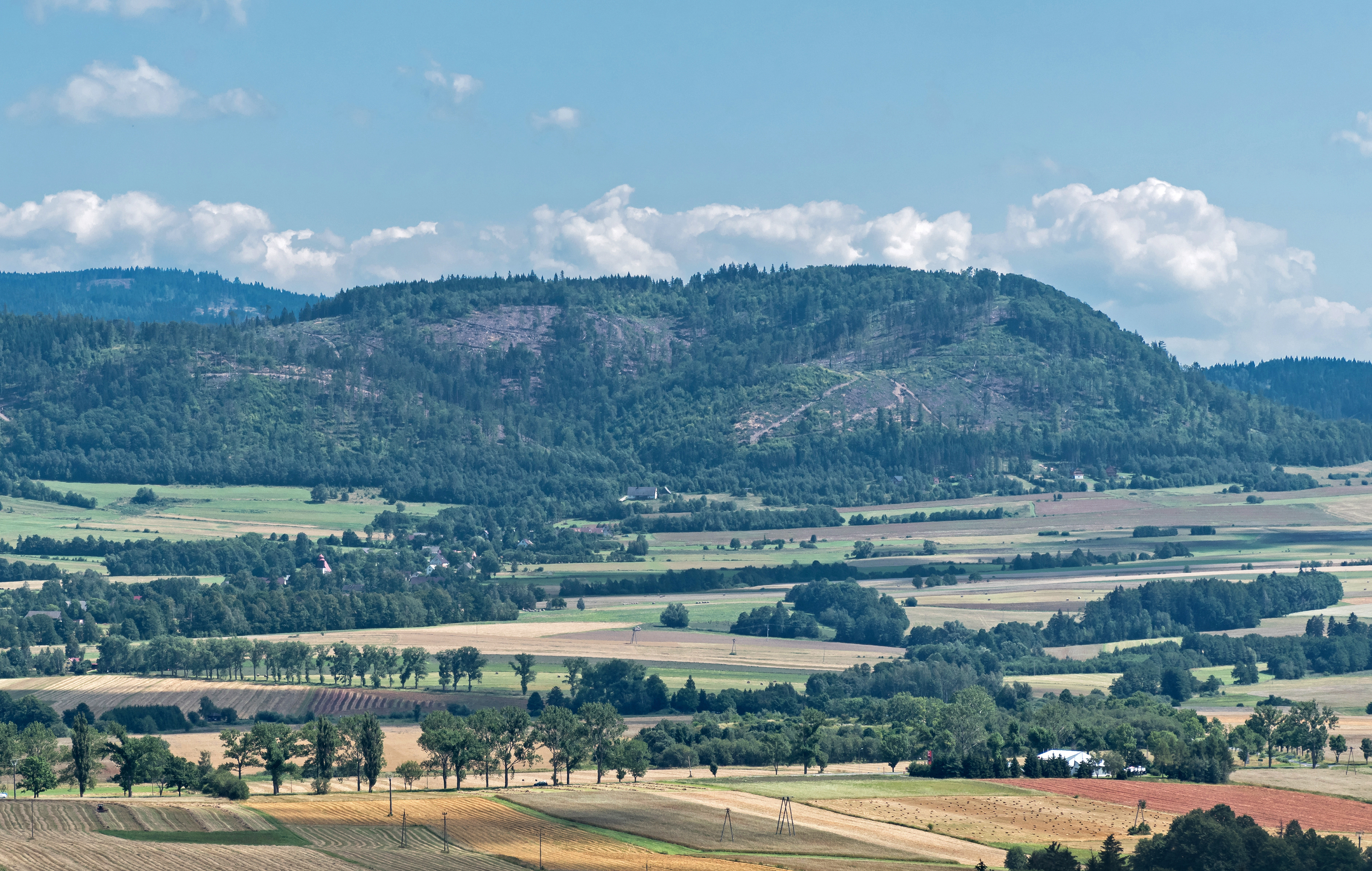 Urwista, Masyw Śnieżnika, Sudetes